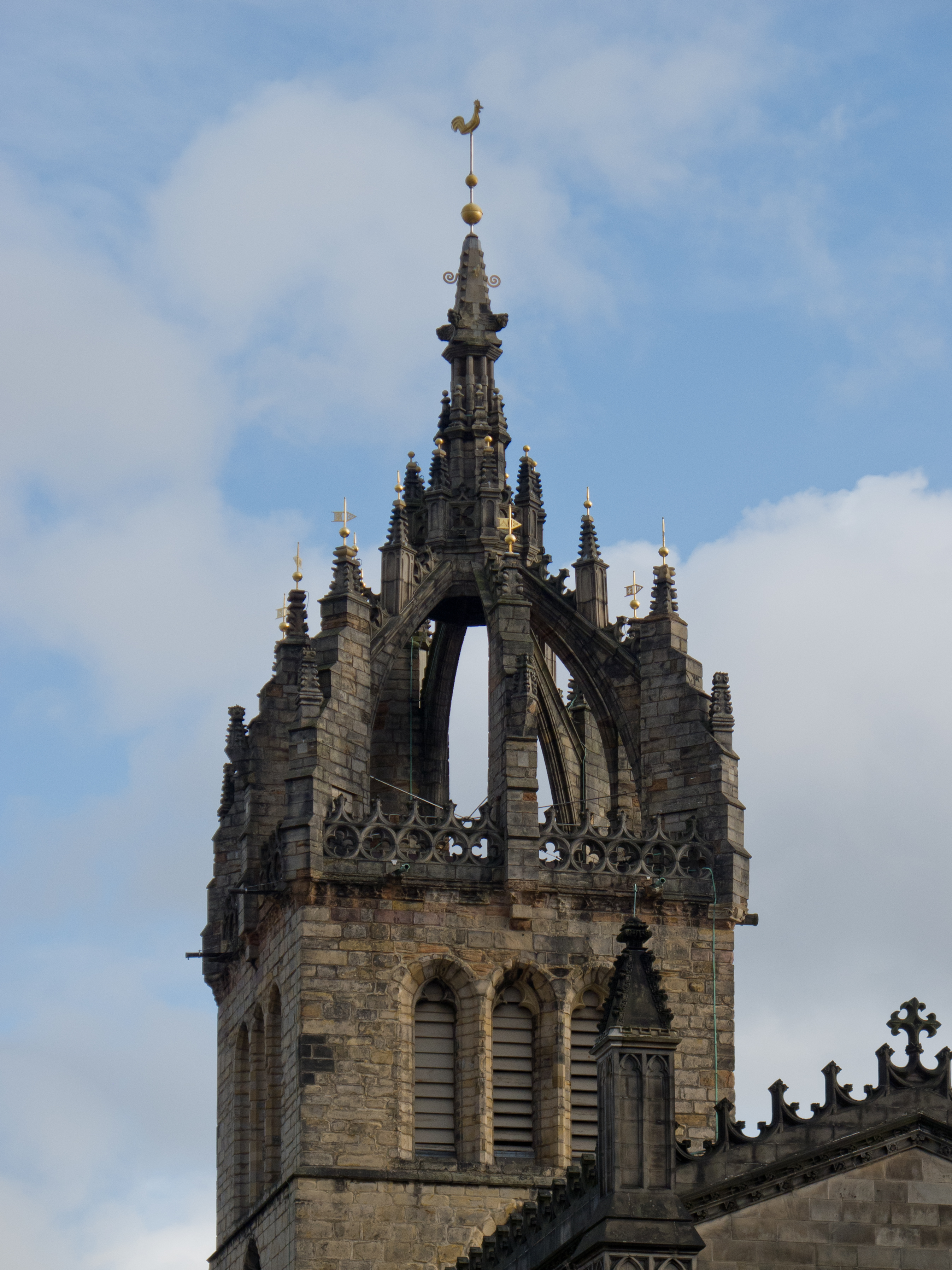 St Giles' Cathedral, Edinburgh, Scotland, UK. Wikidata has entry Q1547466 with data related to this building. {